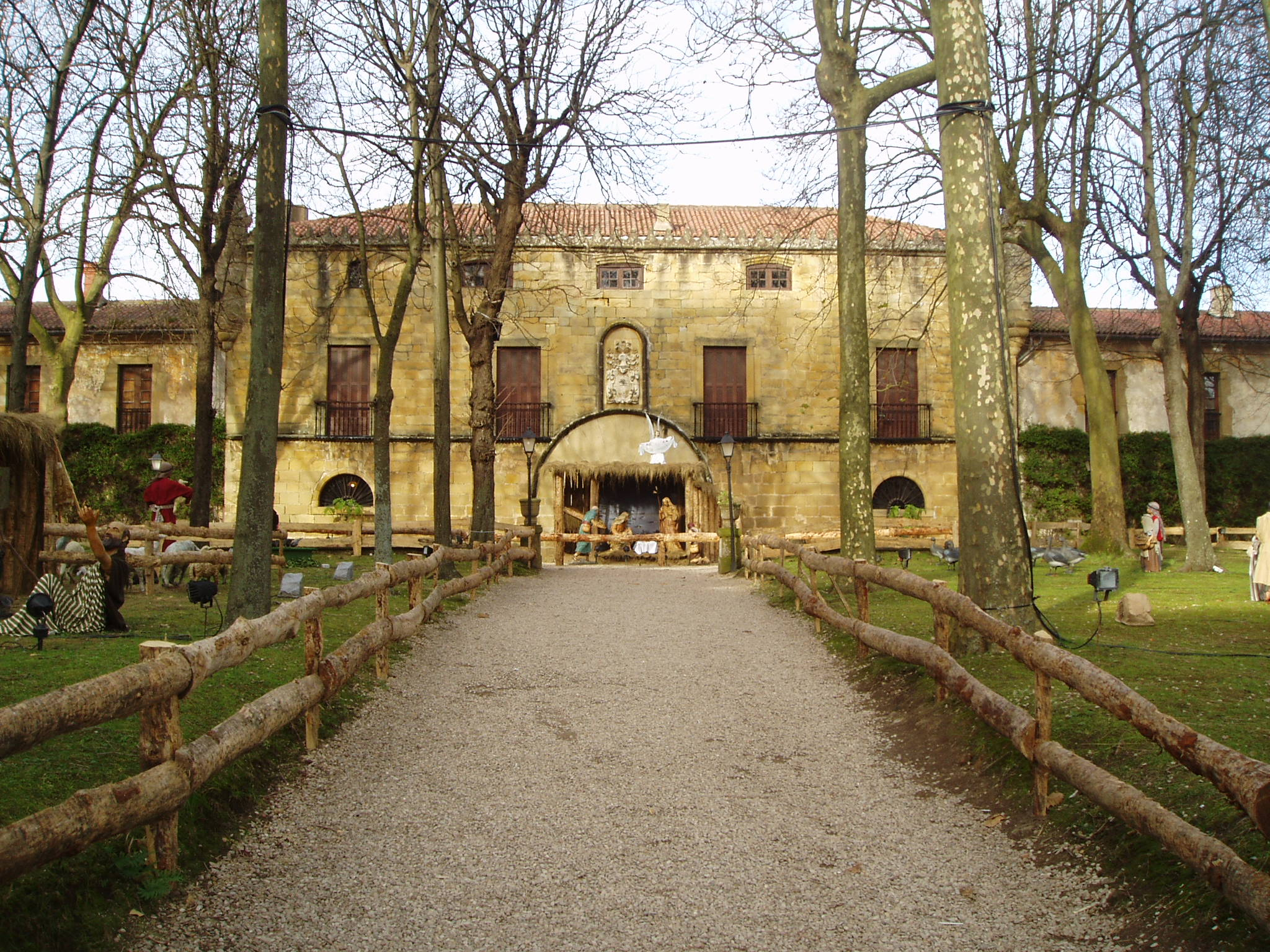 Palace of Narros with Christmas decorations. Zarautz (Gipuzkoa).